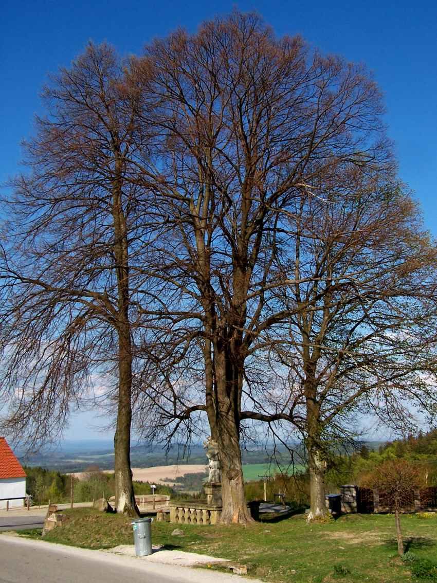 Statue of John Nepomucene among trees in Hojná Voda (a part of Horní Stropnice municipality, České Budějovice District, Czech Republic)